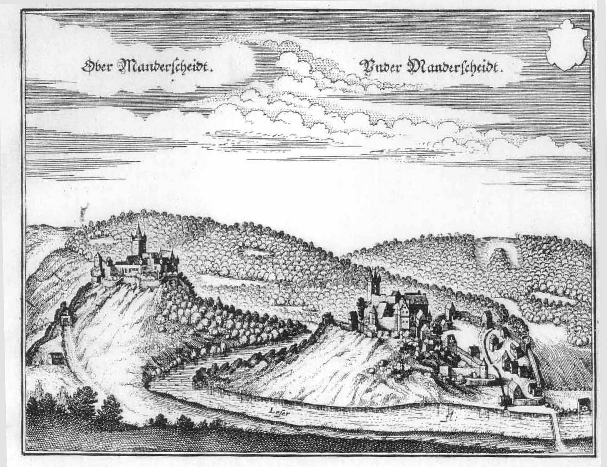 This is a scan of the historical document:Publication date 1647publication_date QS:P577,+1647-00-00T00:00:00Z/9Source